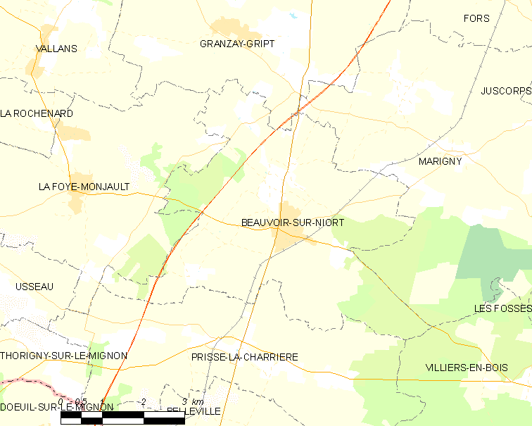 Map of French municipality Beauvoir-sur-Niort